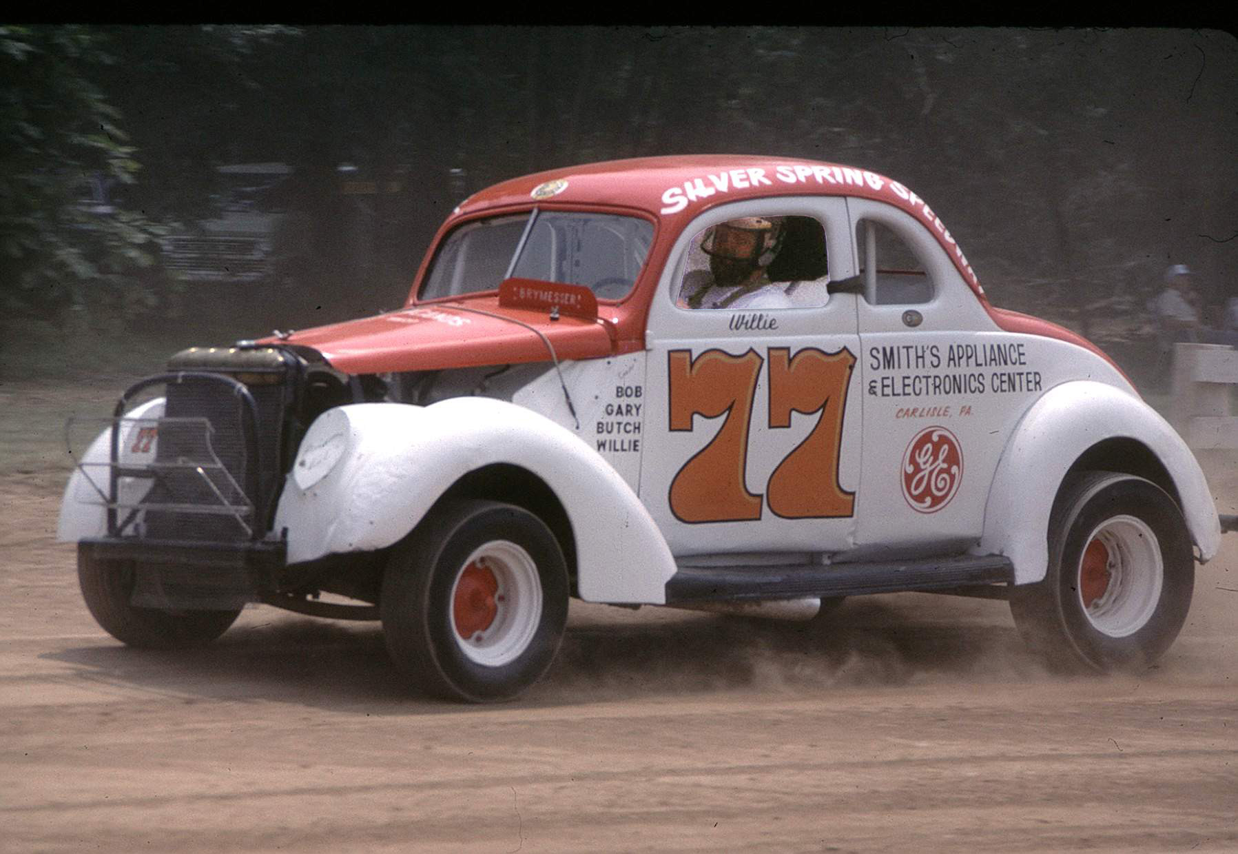 A vintage Modified racing car at a Williams Grove Old Timers meeting. Photo by Ted Van Pelt for Circle Track Magazine, uploaded from his flickr account. Other images from his photo shoot on this car appeared in the June 1987 issue [1].